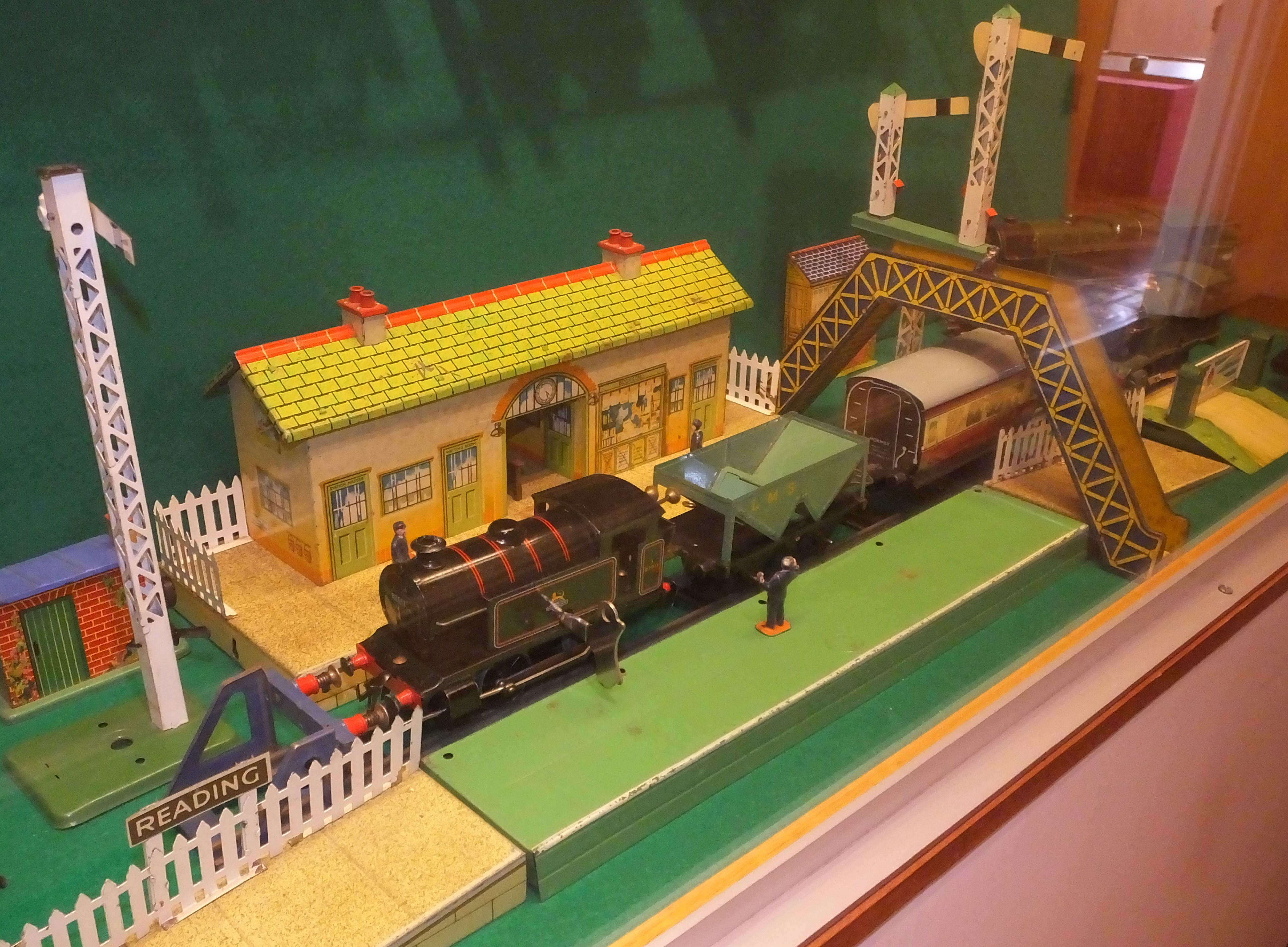 Taken during the tour and editathon at the Judges' Lodgings, Lancaster. The upper floor of the museum contains the Childhood collection. 'O' gauge model station